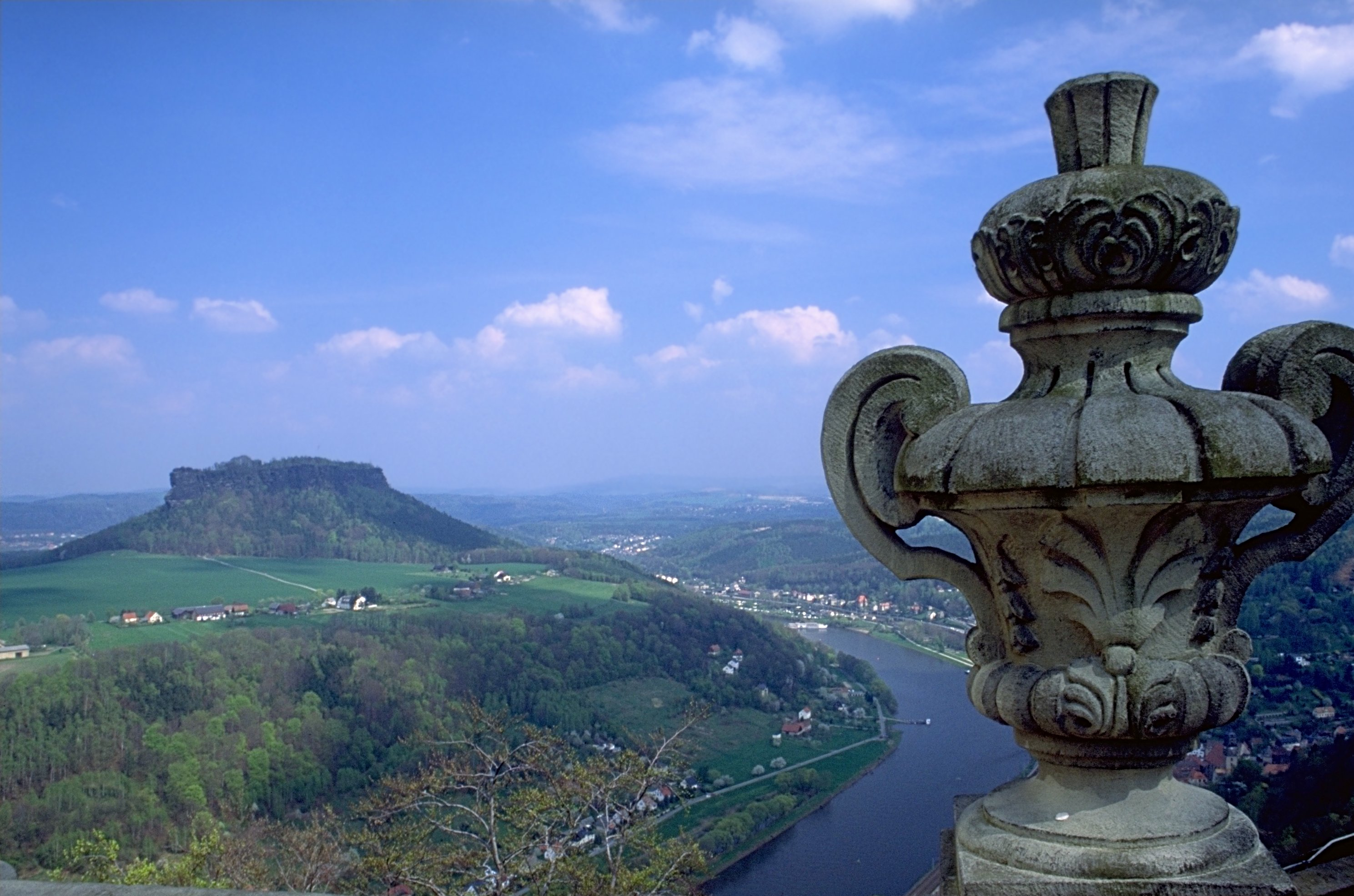 View from Königstein to Lilienstein, Germany Photo was taken using the following technique: Film: Fuji Velvia Lens: 2.8/28 Filter: none Body: Minolta Dynax 7 Support: none Image with Information in English Bild mit Informationen auf Deutsch